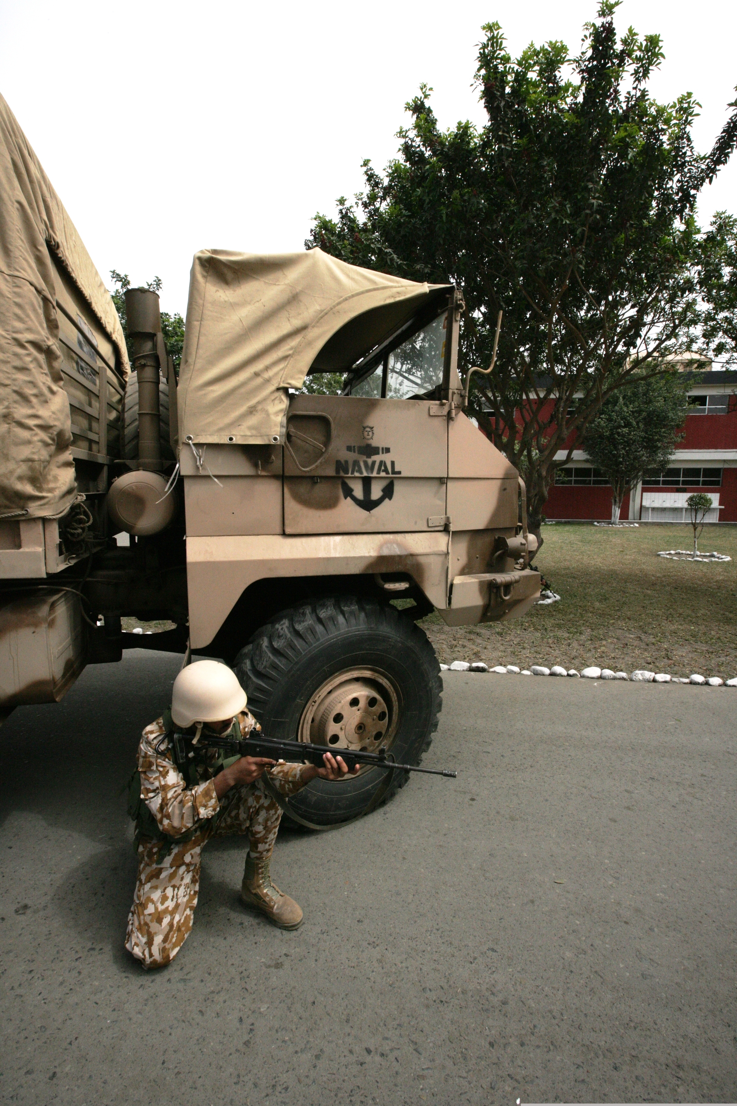 A Mexican naval infantryman carrying an FN FAL 50.61 rifle holds a security position beside a Peruvian troop transport truck in support of noncombatant evacuation training during Partnership of the Americas/Southern Exchange in Ancon, Peru, July 18, 2010. This year's partner nations included Argentina, Brazil, Ecuador, Colombia, Mexico, Paraguay, Peru, the United States, Uruguay and Canada.